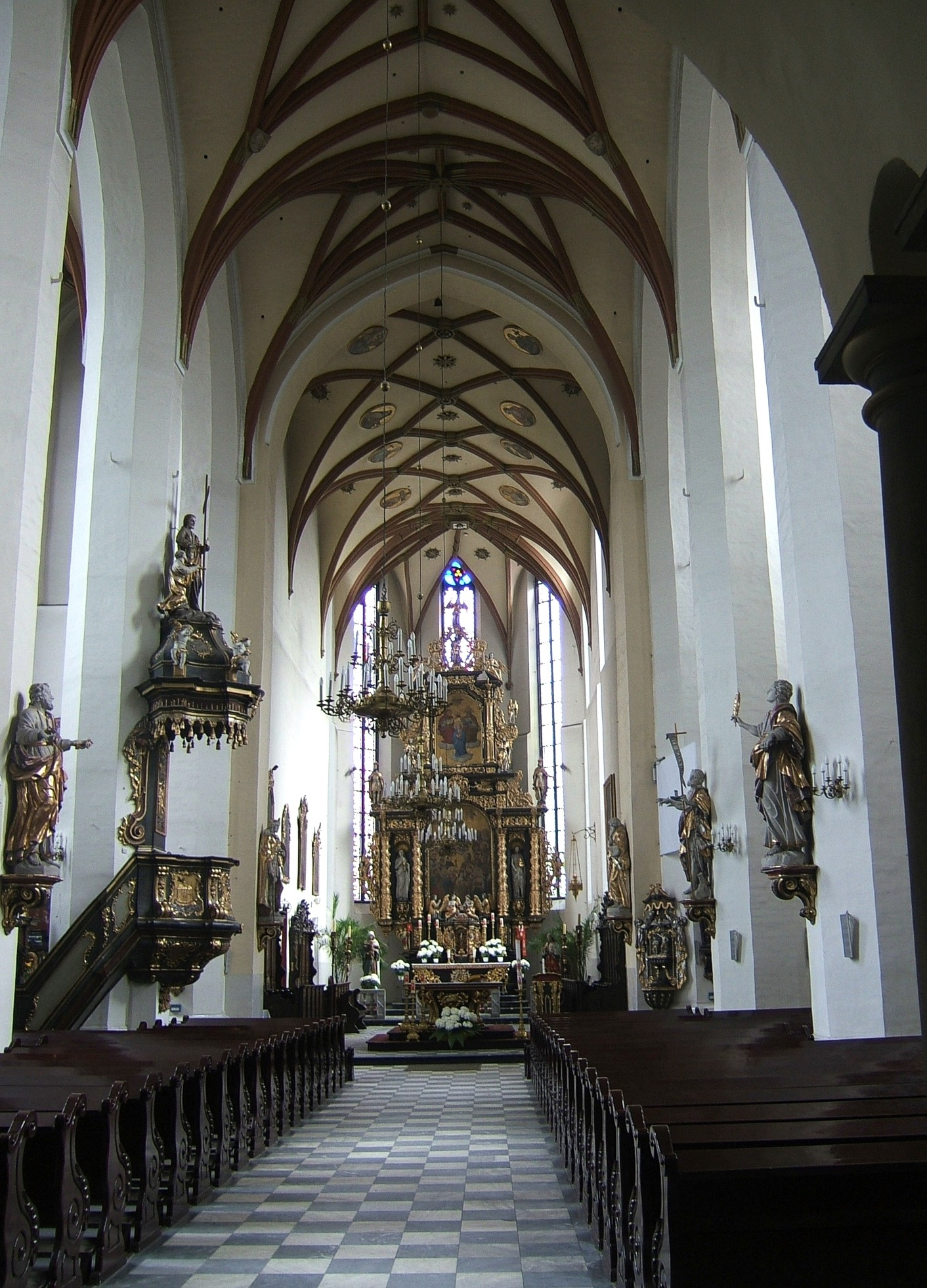 The main nave of Gliwice's All Saints church.